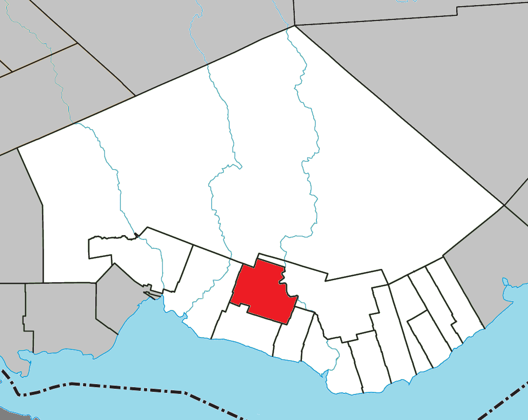 Location of Saint-Alphonse, Quebec within Bonaventure Regional County Municipality.